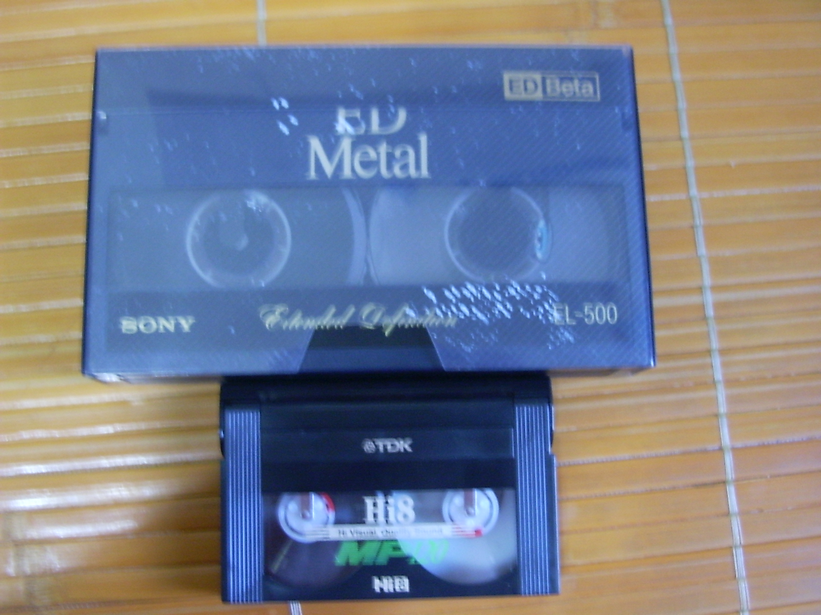 Sony ED Beta tape and TDK Hi8 tape.